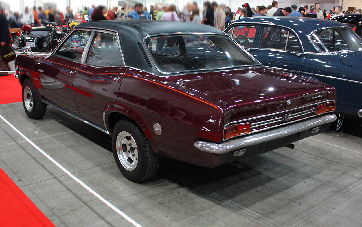 rear view of Vauxhall Ventora (3.3-litre six)